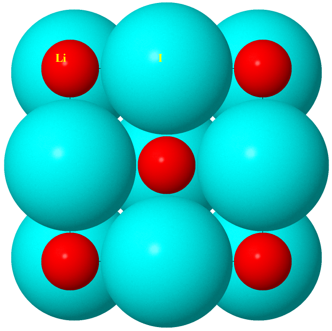 Front view of the unit cell of lithium iodide, showing that the iodide ions are nearly in contact. Ionic radii: Li+: 90 pm; I-: 206 pm. Unit cell is 600 pm on a side.